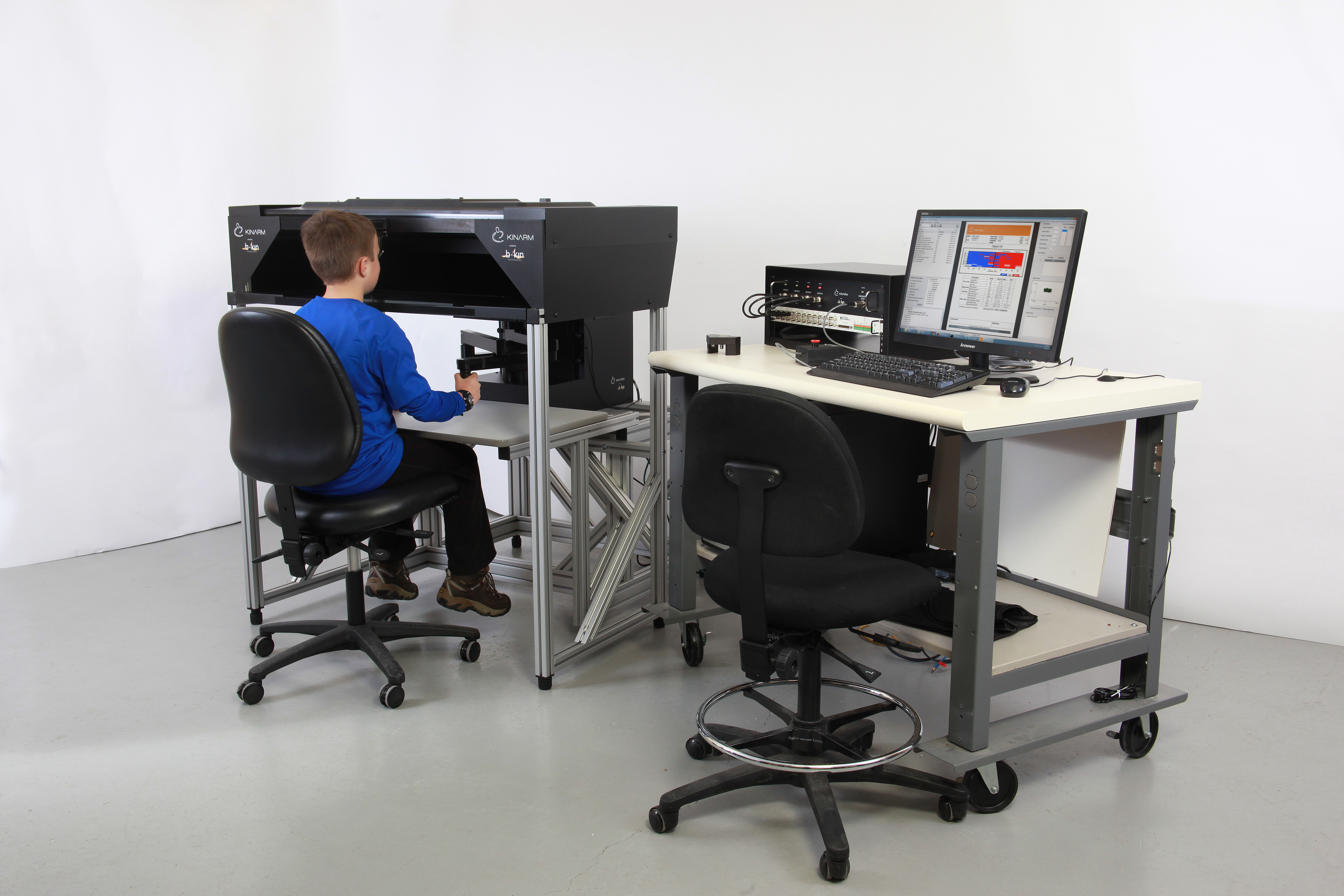 the KINARM Endpoint robot